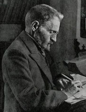 Eliezer Ben-Yehuda working on his dictionary.